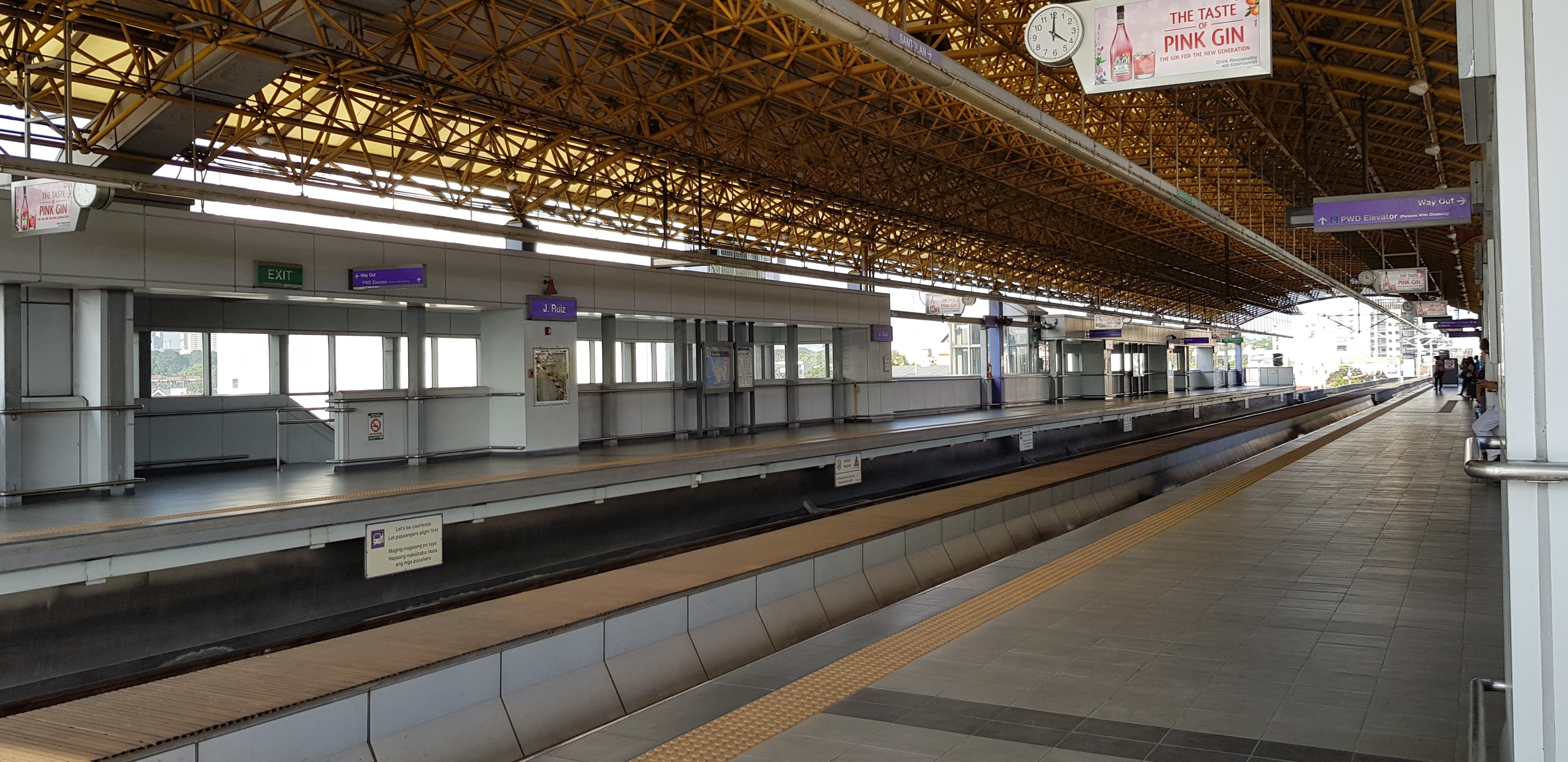 Line 2 J. Ruiz Station Platform